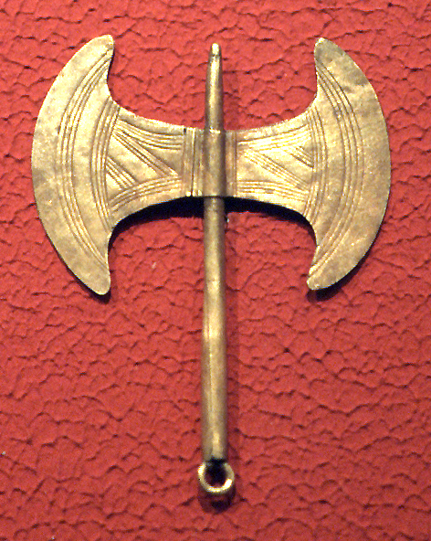 minoan double axe